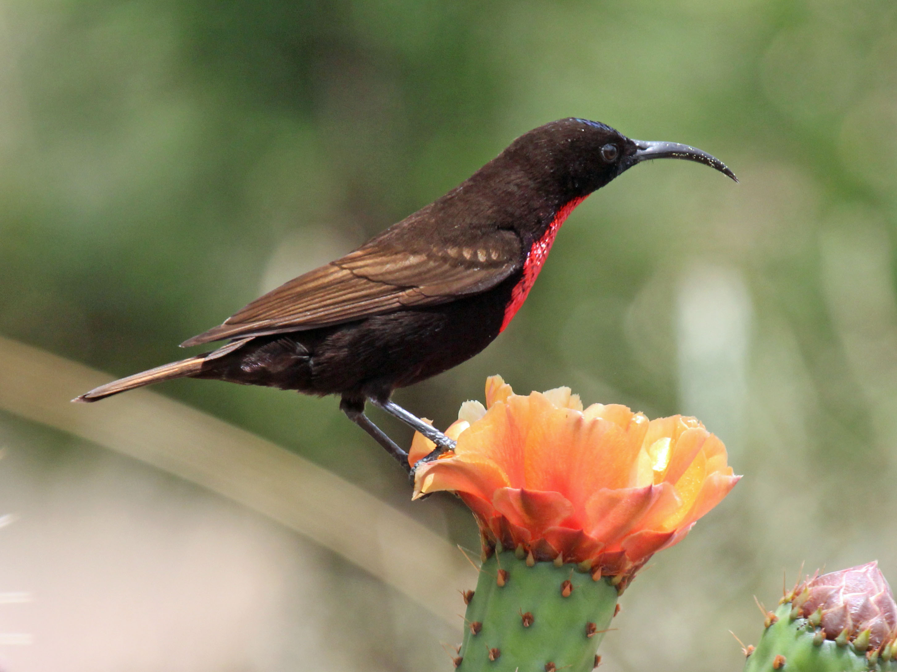 Male Hunter's Sunbird (Chalcomitra hunteri) - Nairobi National Park, Kenya.